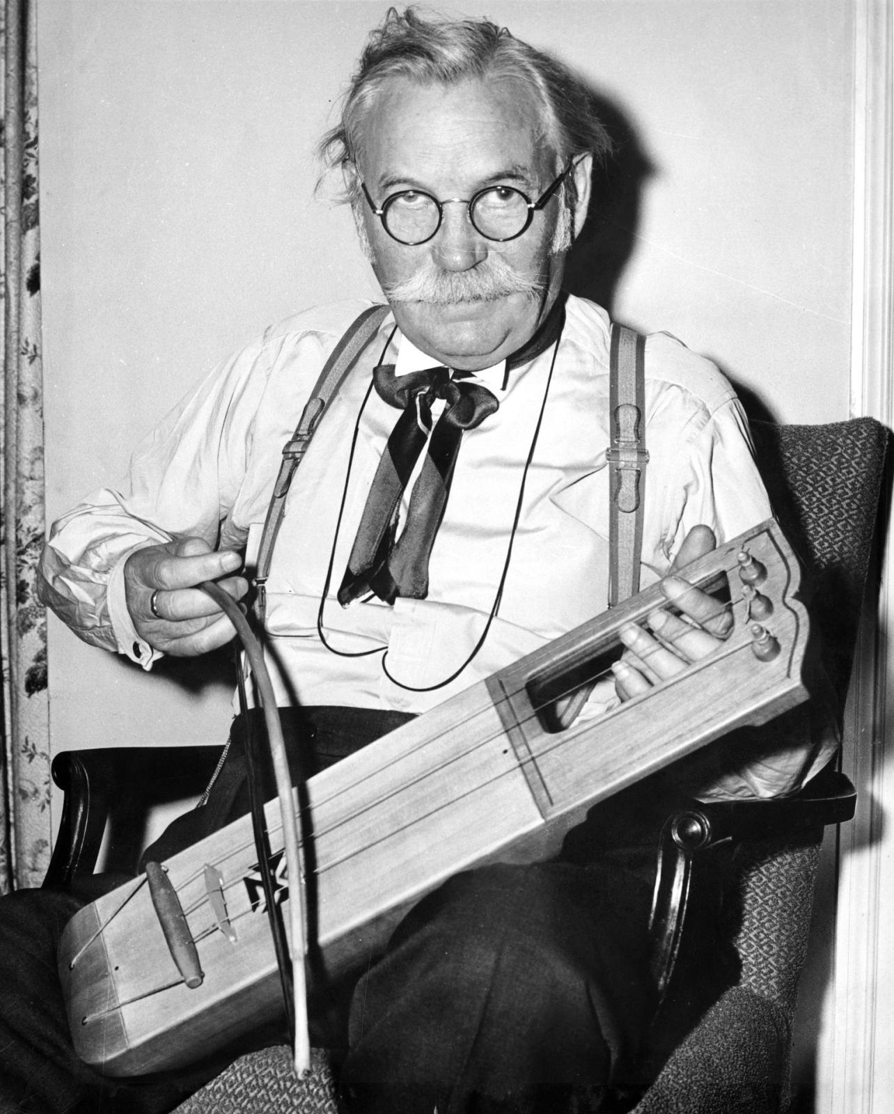 Photograph of the Finnish musicologist Otto Andersson (1879–1969) with a Finnish bowed harp (jouhikko or stråkharpa).